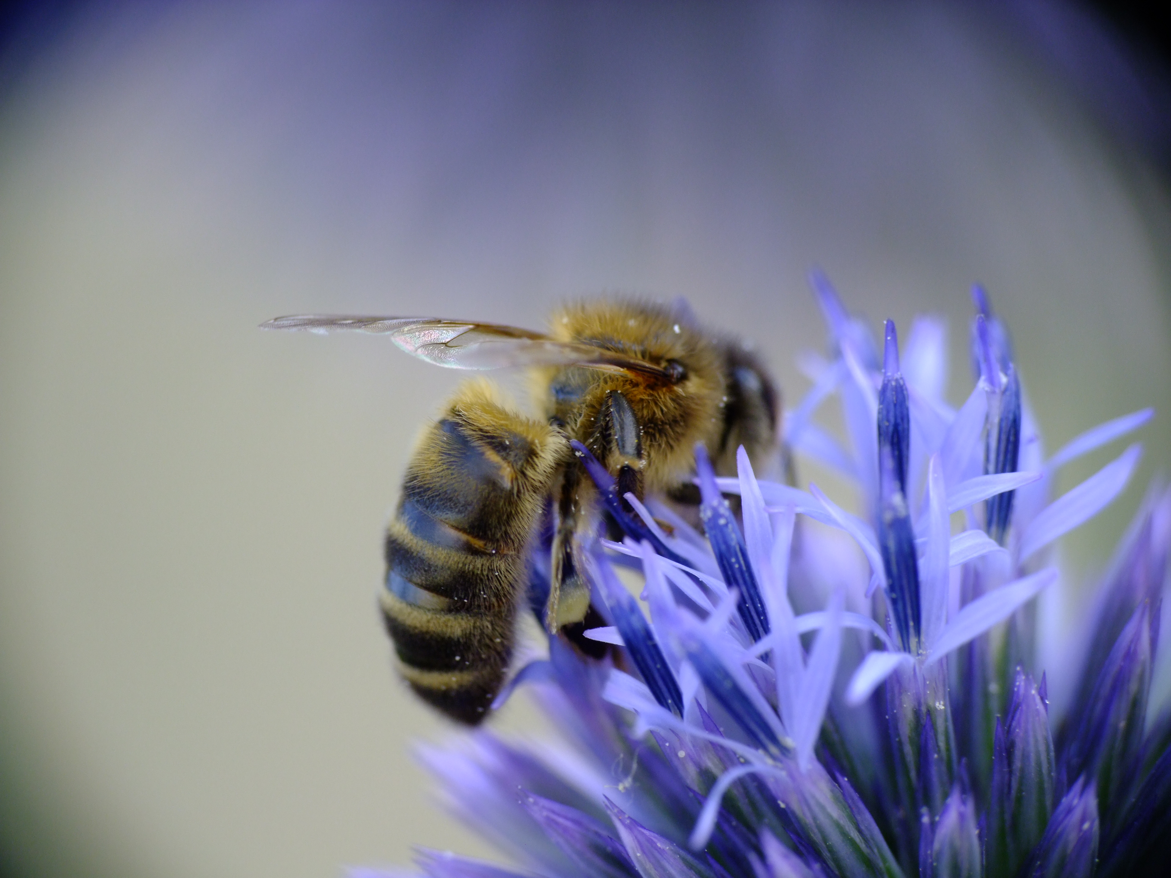 Apis milifera